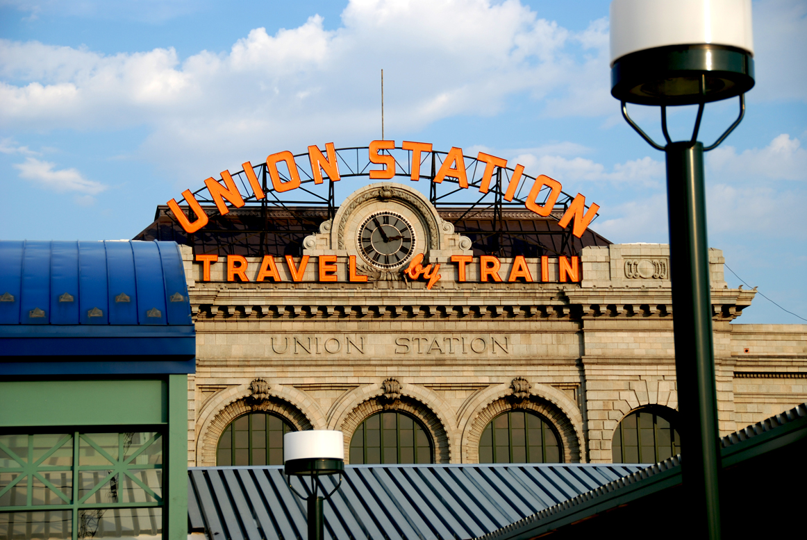 Union Station in Denver, Colorado